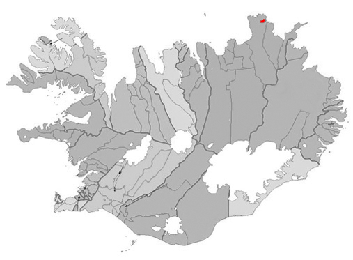 Based on Municipalities of Iceland.png.